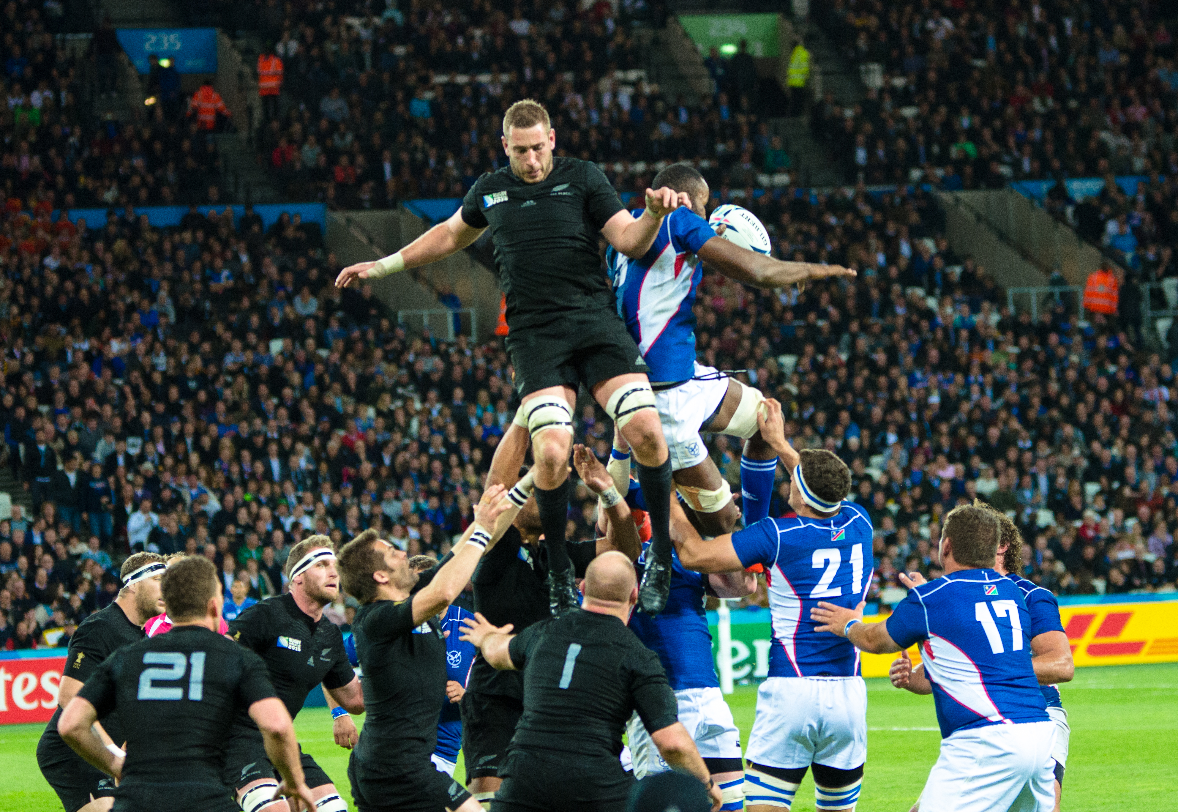 Game between New Zealand and Namibia in the 2015 Rugby World Cup at Olympic Stadium.